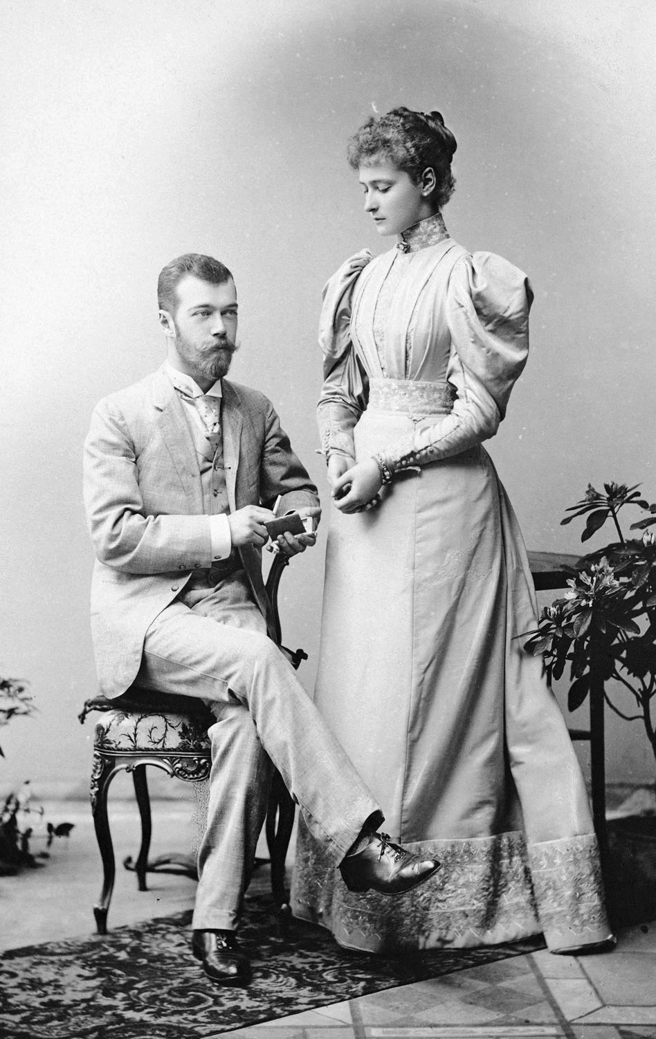 Alexandra Fyodorovna (Alix of Hesse) and Nicholas II of Russia